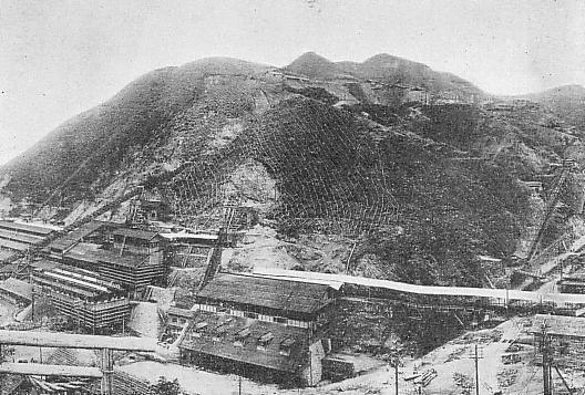 Hitachi Copper Mine circa 1930